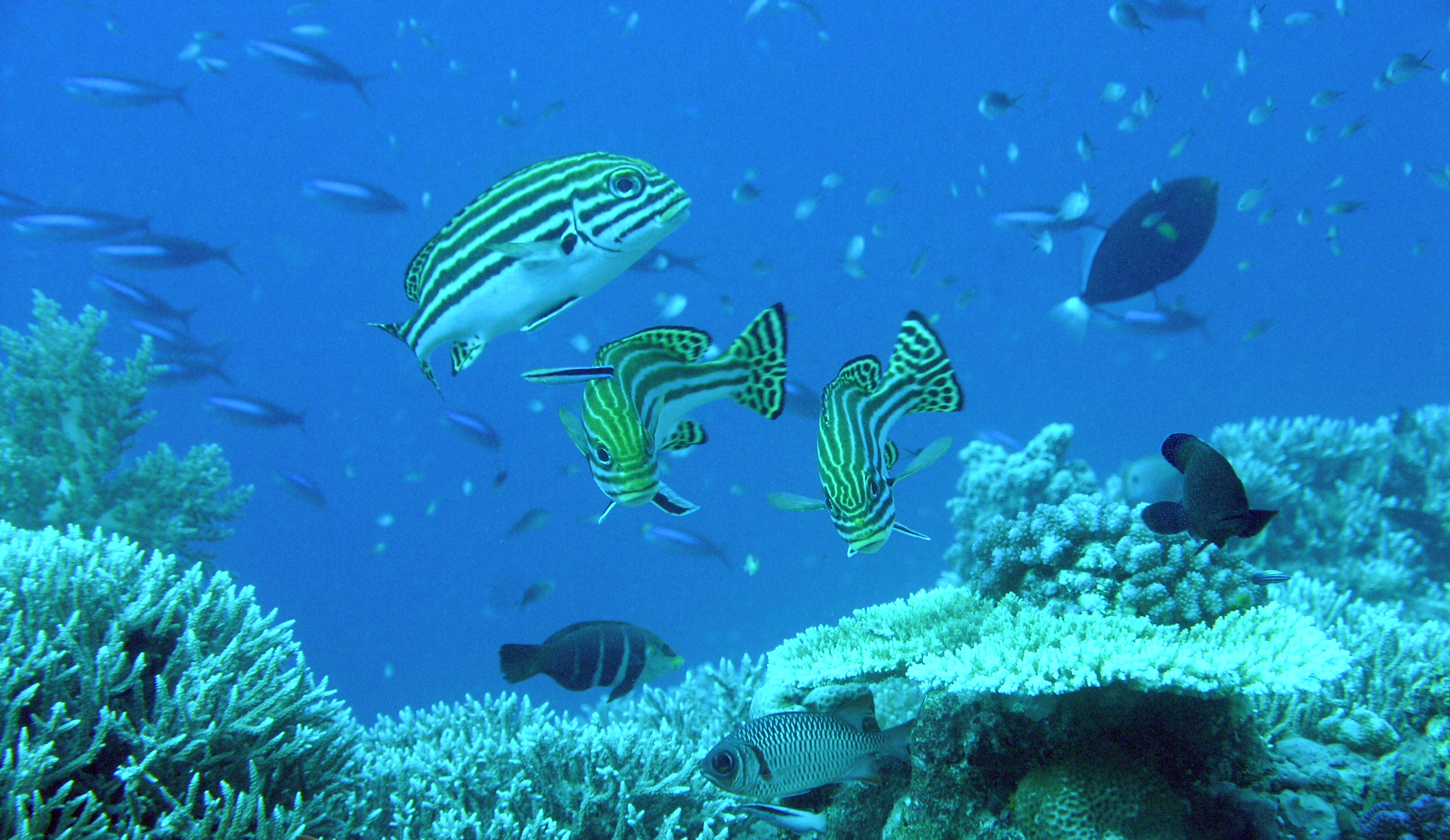 scuba diving near Swallow Reef (Pulau Layang-Layang) in Spratly Islands, South China Sea